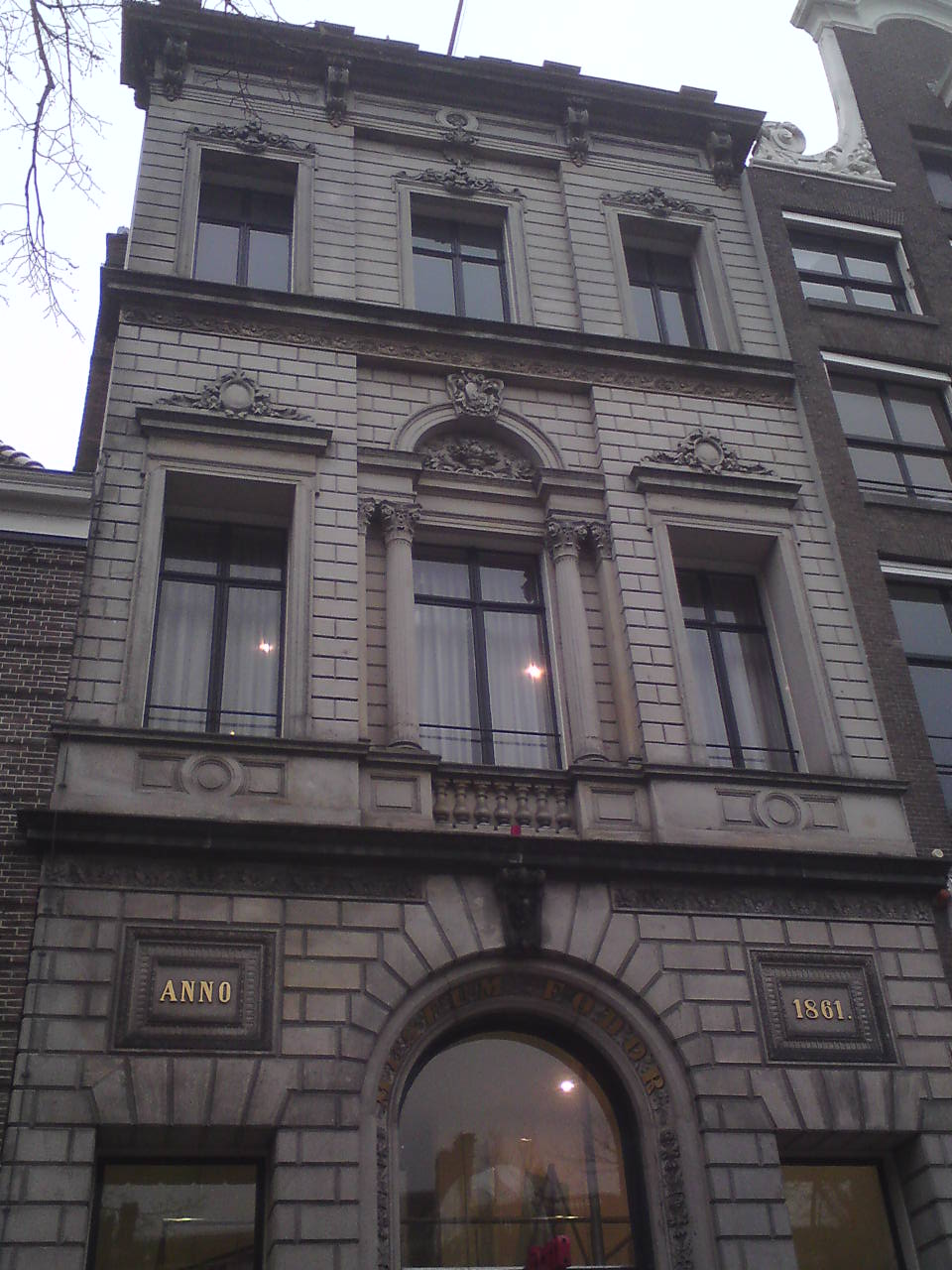 Build as Museum Fodor, now it's called Foam fotografiemuseum Amsterdam.